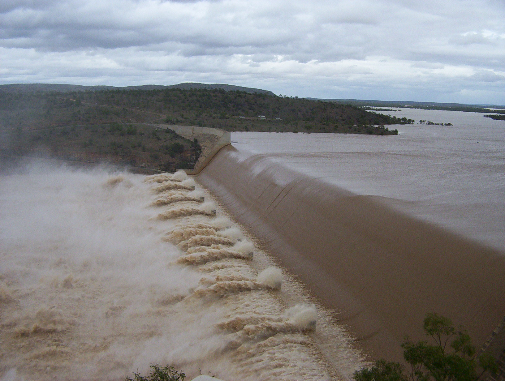 The hydraulic jump at Burkedin Dam. When this picture was taken, the water level was 3.75 metres above the wall.